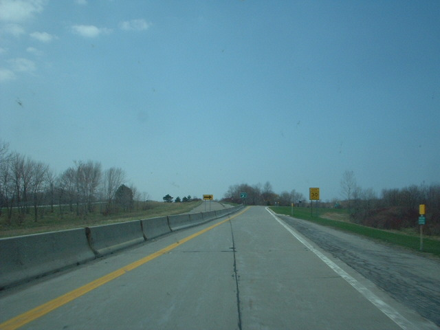 The stub at the west end of the Lake Ontario State Parkway in Carlton, New York, a remnant of the original plans for the parkway that would have taken it as far west as Niagara Falls.